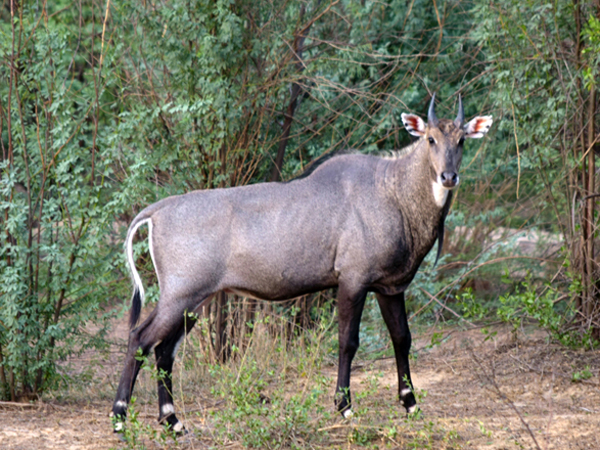 A Curious Neelgai at Keoladeo Ghana National Park, Bharatpur.